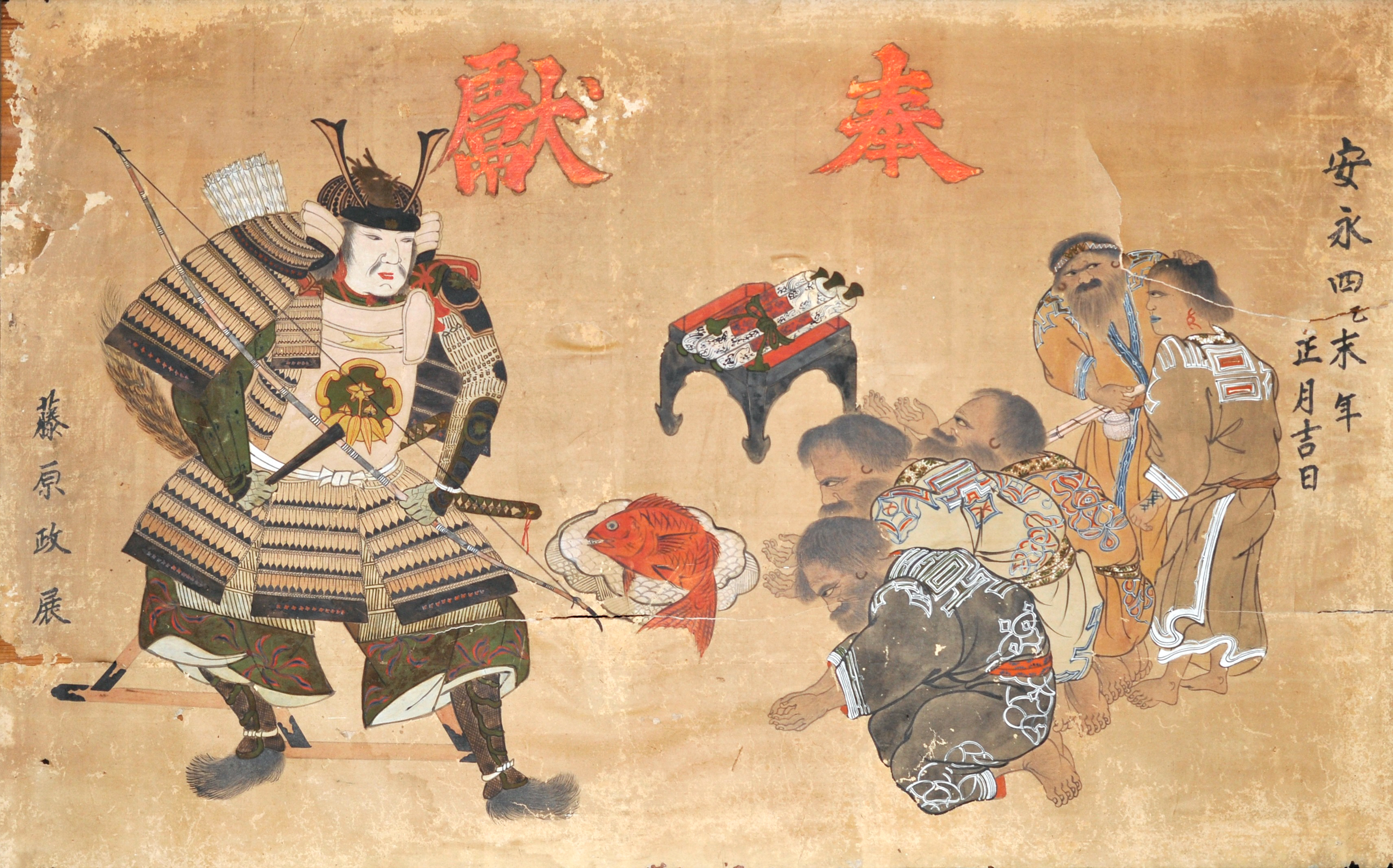 A Japanese samurai and Ainu in Hokkaido around 1775. Ainu Genre Ema (絵馬), Hakodate City Museum, Hokkaido, Japan